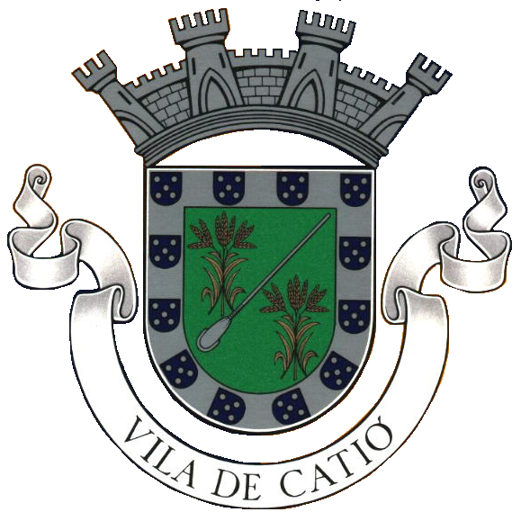 Coat of arms of the city of Catió, Guinea-Bissau, during Portuguese rule (may be still in use). From the book of Almeida Langhans, "Armorial do Ultramar Português" 2 vols. 1966. Emerson